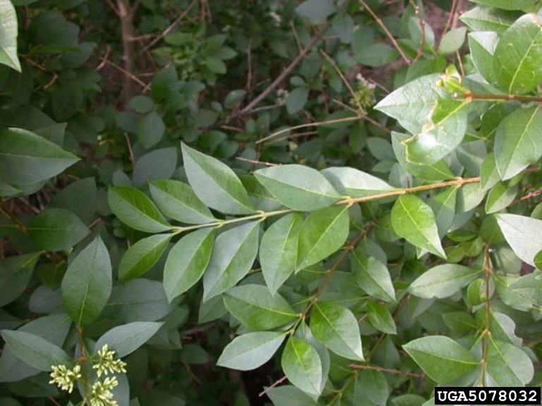 Leaves of Ligustrum vulgare